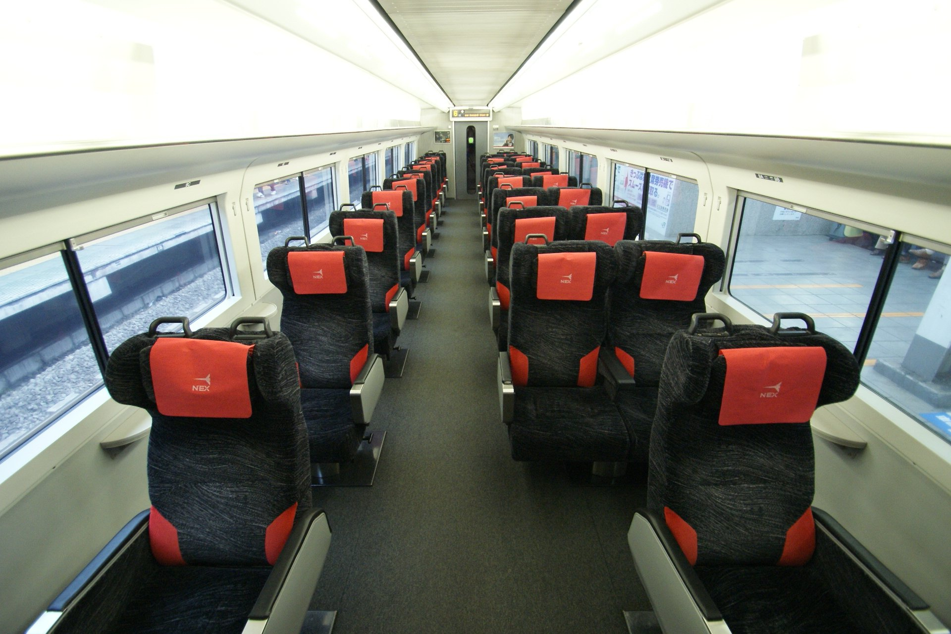 Interior of JR East 253 series "Narita Express" Green-class car with 1+2 seating